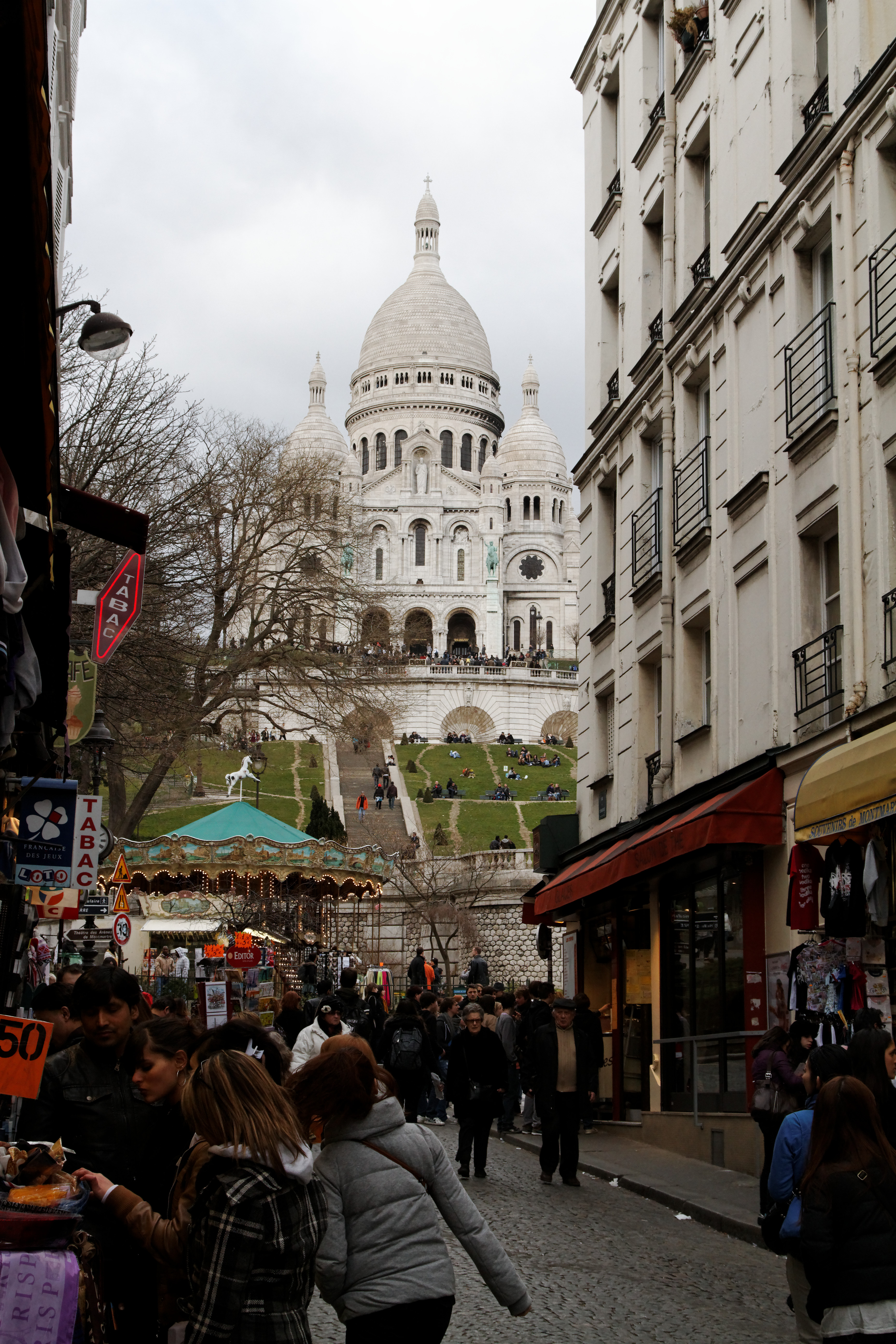 Montmartre